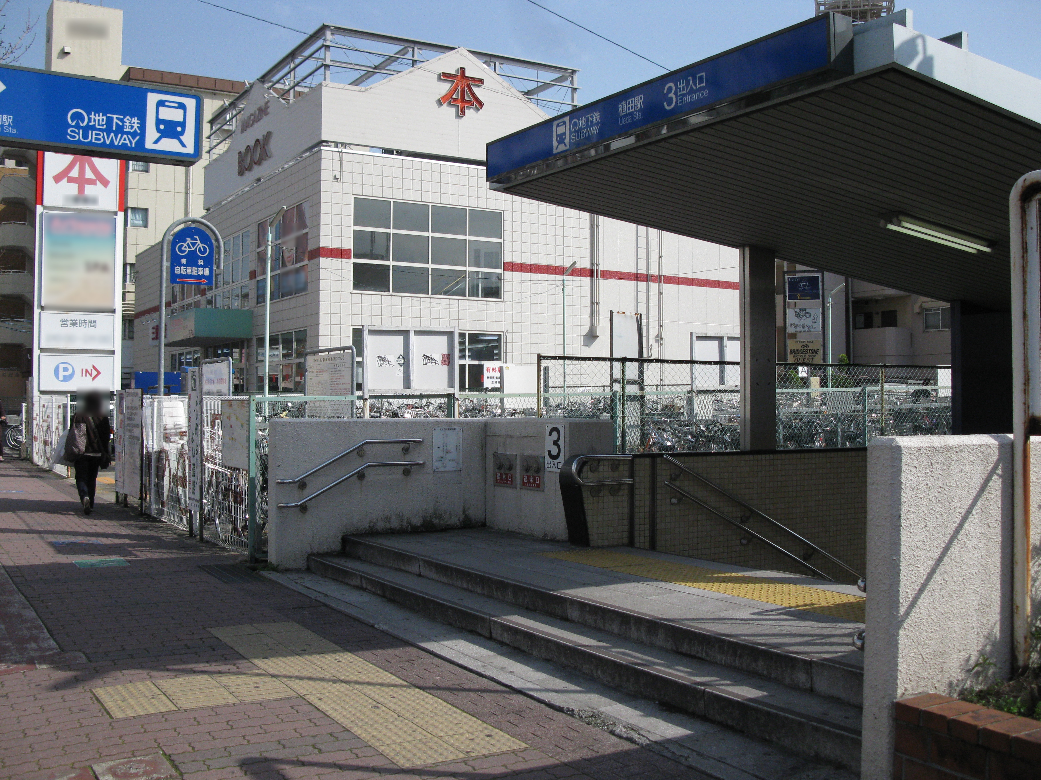 Ueda Station no.3 entrance (Nagoya Municipal Subway Tsurumai Line)